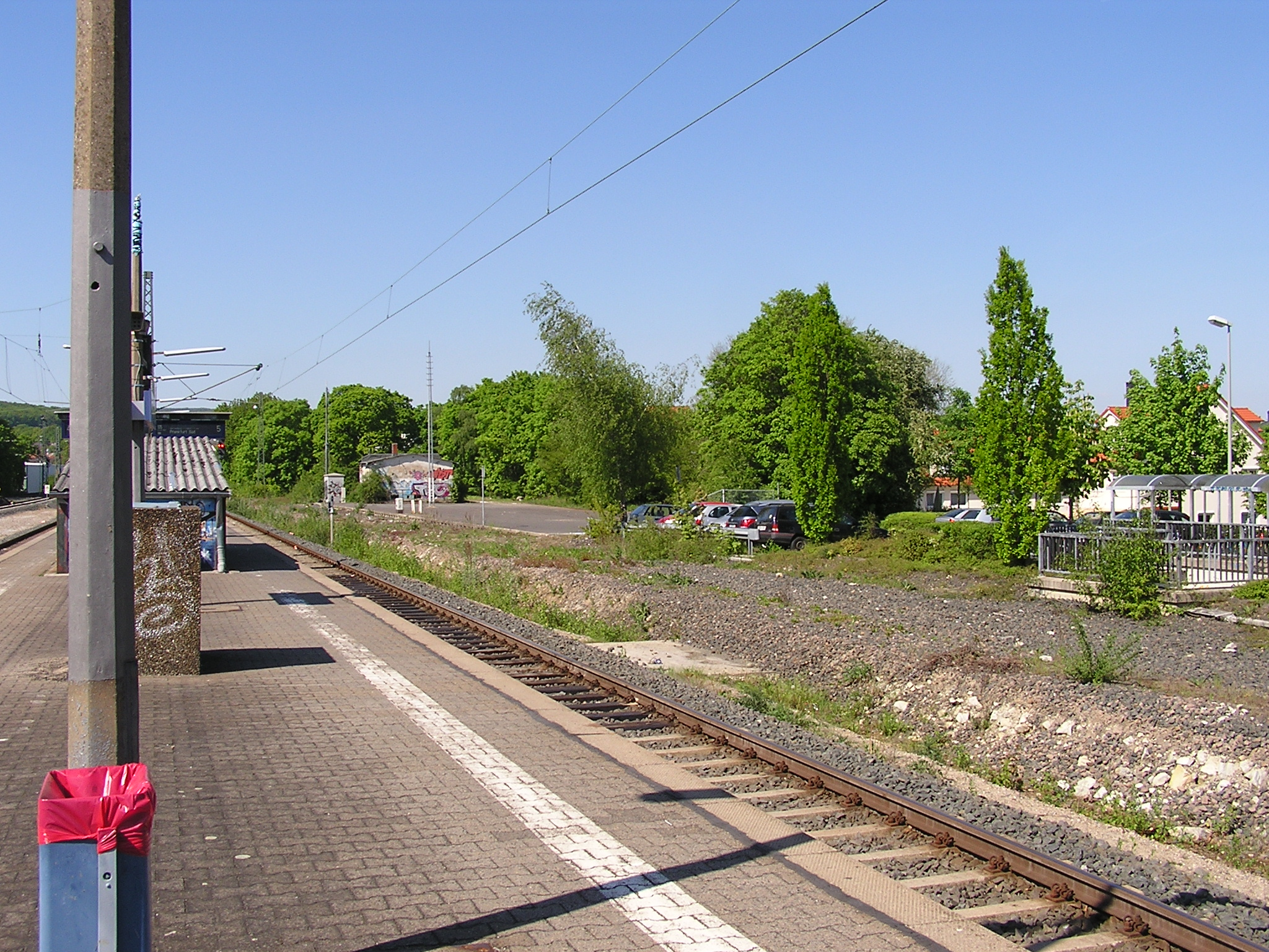 Former goods section of the station Friedrichsdorf (Taunus). In former times there were 3 tracks, and at the end of the 90es there were still 2 of them.